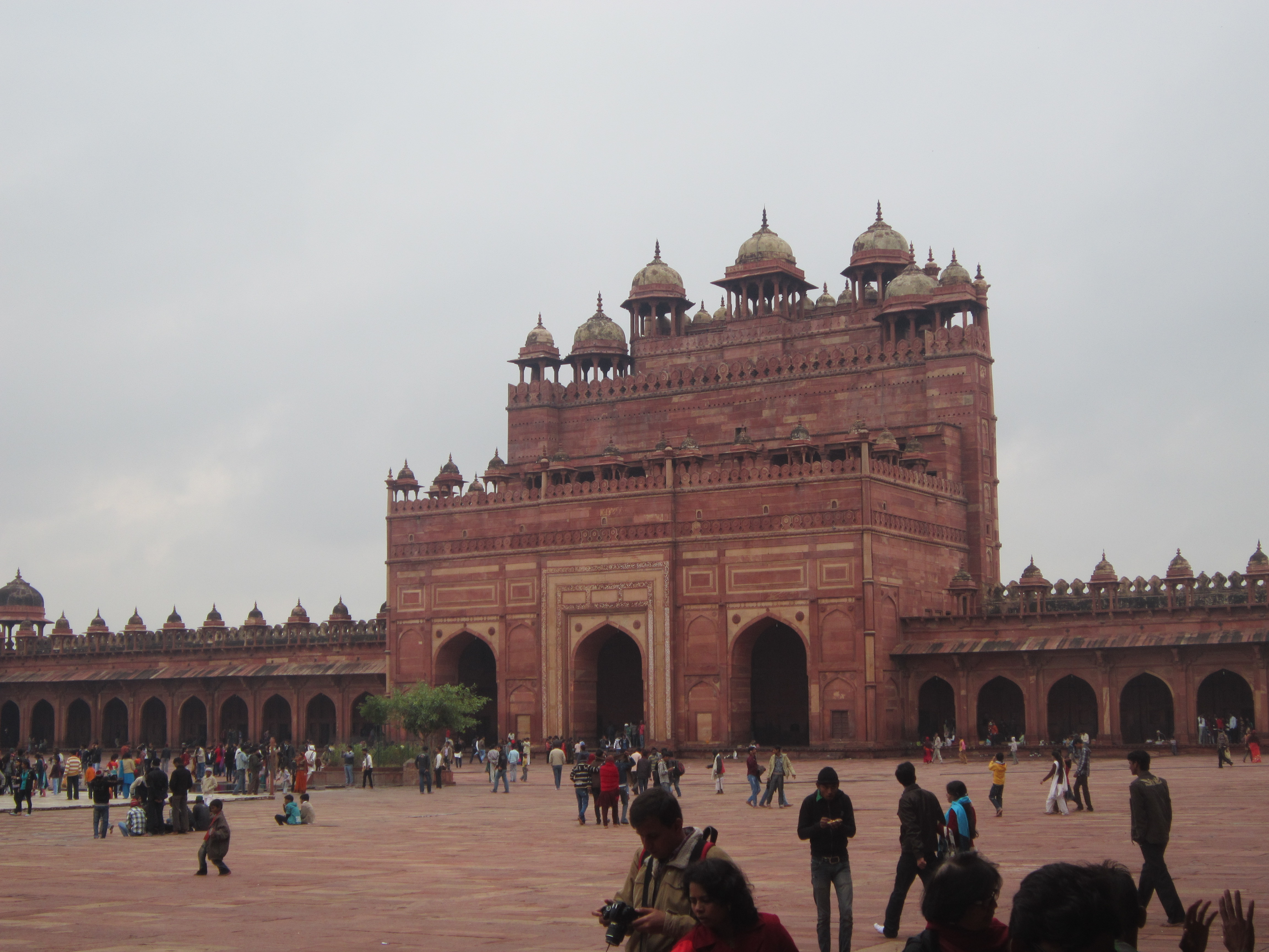 Rear view of the Buland Darwaza at Fatehpur Sikri near Agra, India.